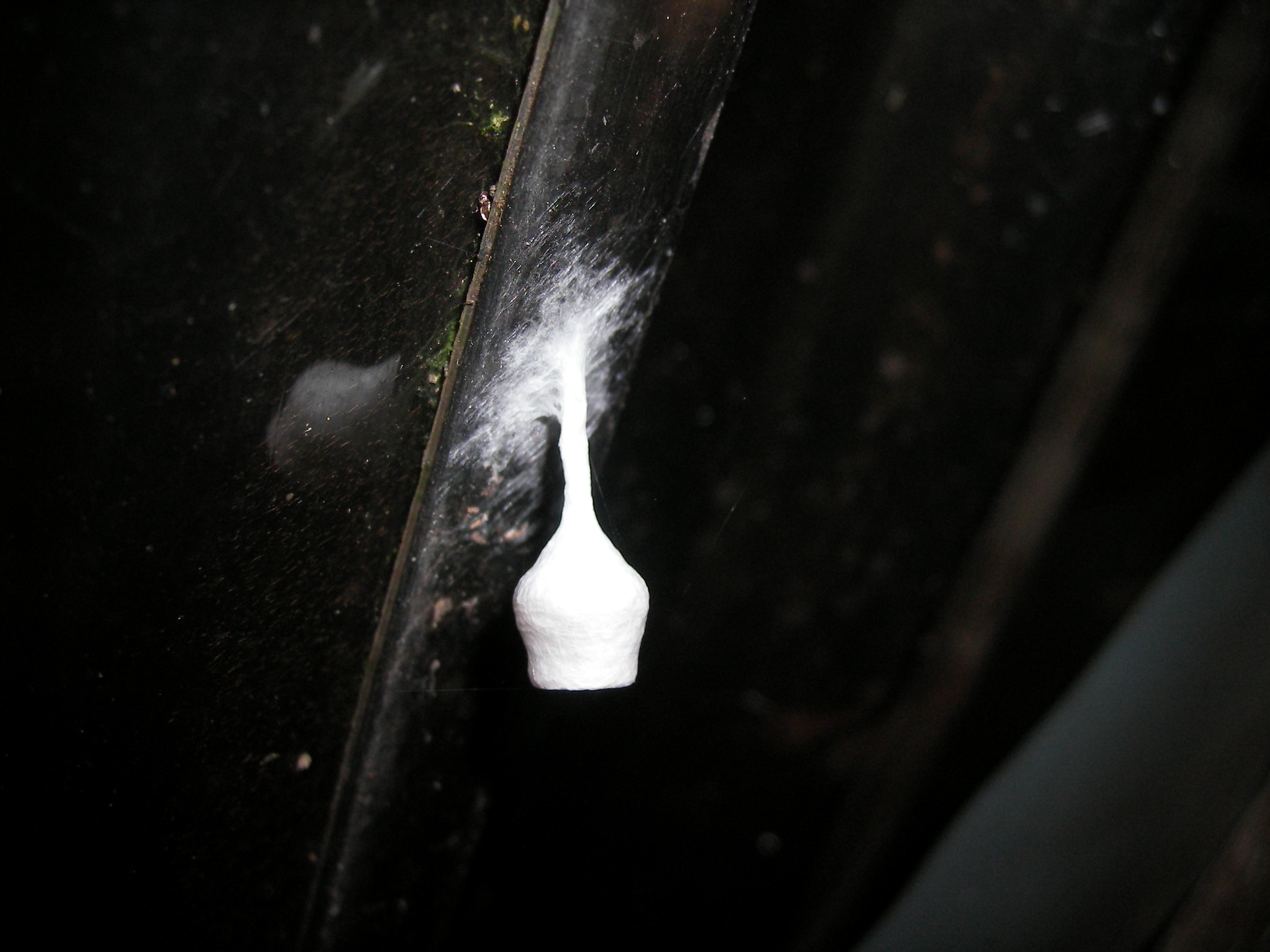 Cocoon from Agroeca brunnea